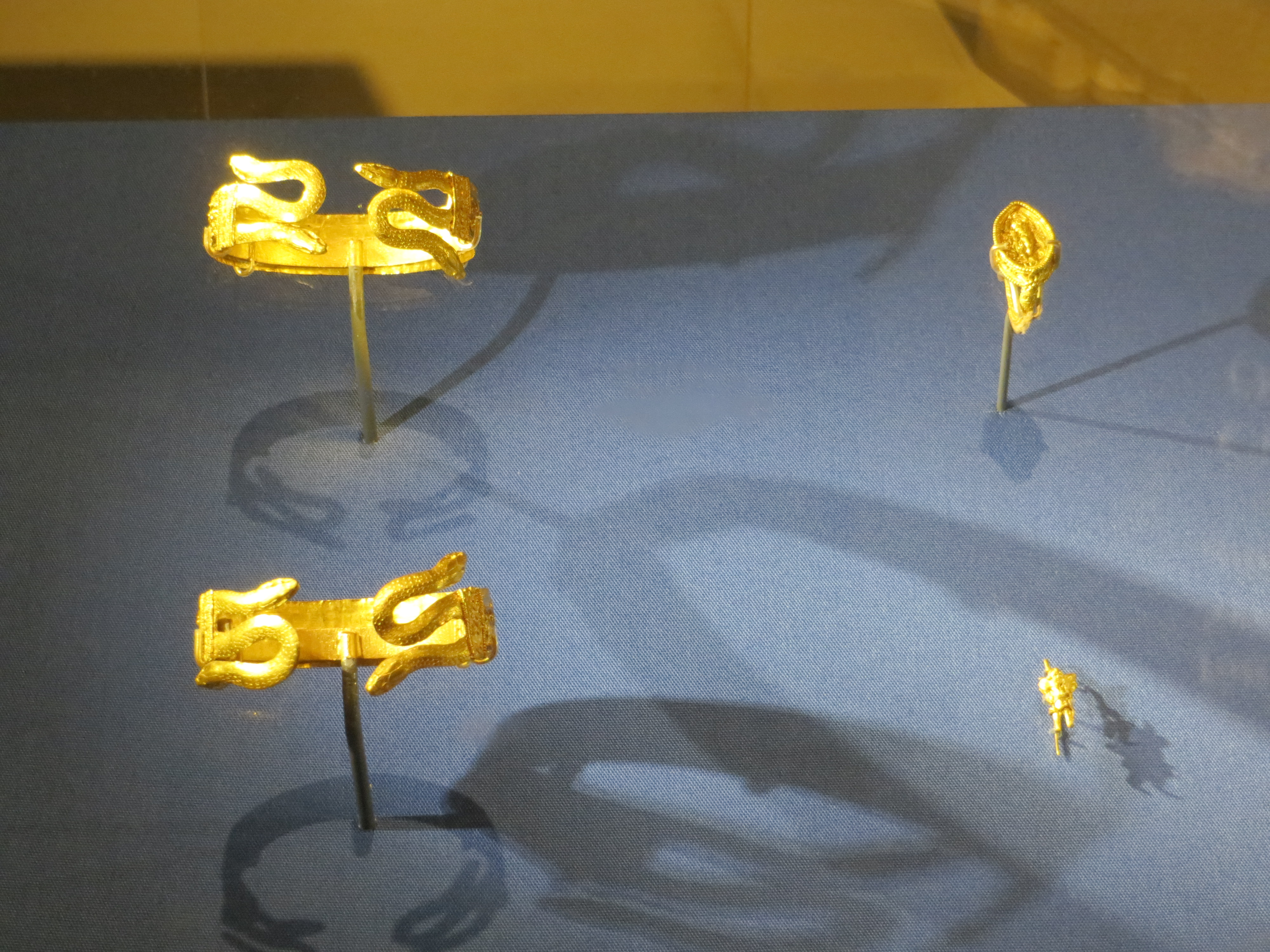 Ancient Greek gold jewellery from Avola, Sicily, Italy. 4th century BC. Left, a pair of gold bracelets (GR 1923,0421.1 and 1923,0421.2). Top right, a gold ring decorated with a maenad (GR 1923,0421.3). Bottom right, an earing in the form of Eros (GR 1963,0226.1)